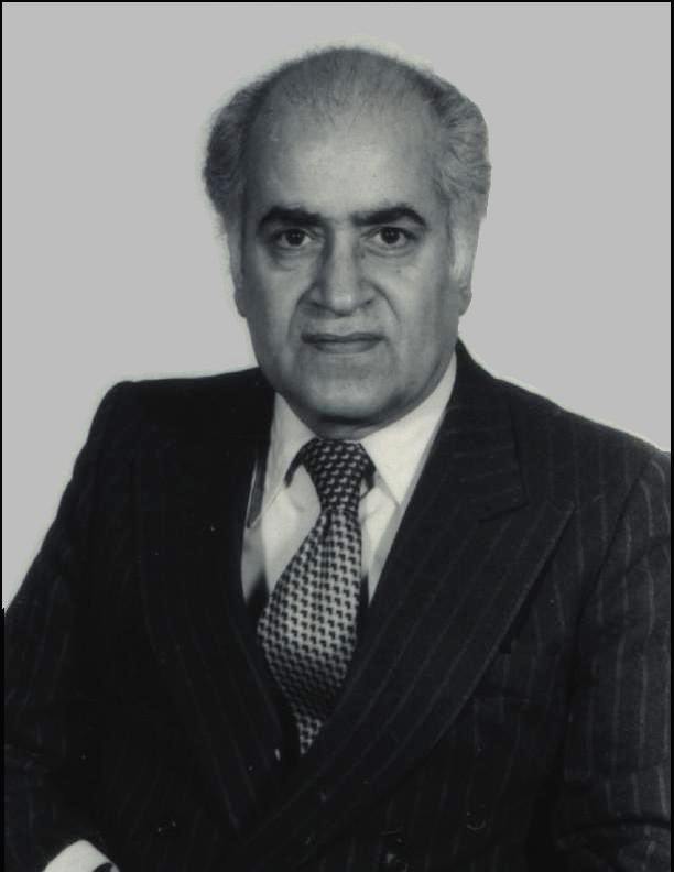 Photograph of Mohammed Yeganeh